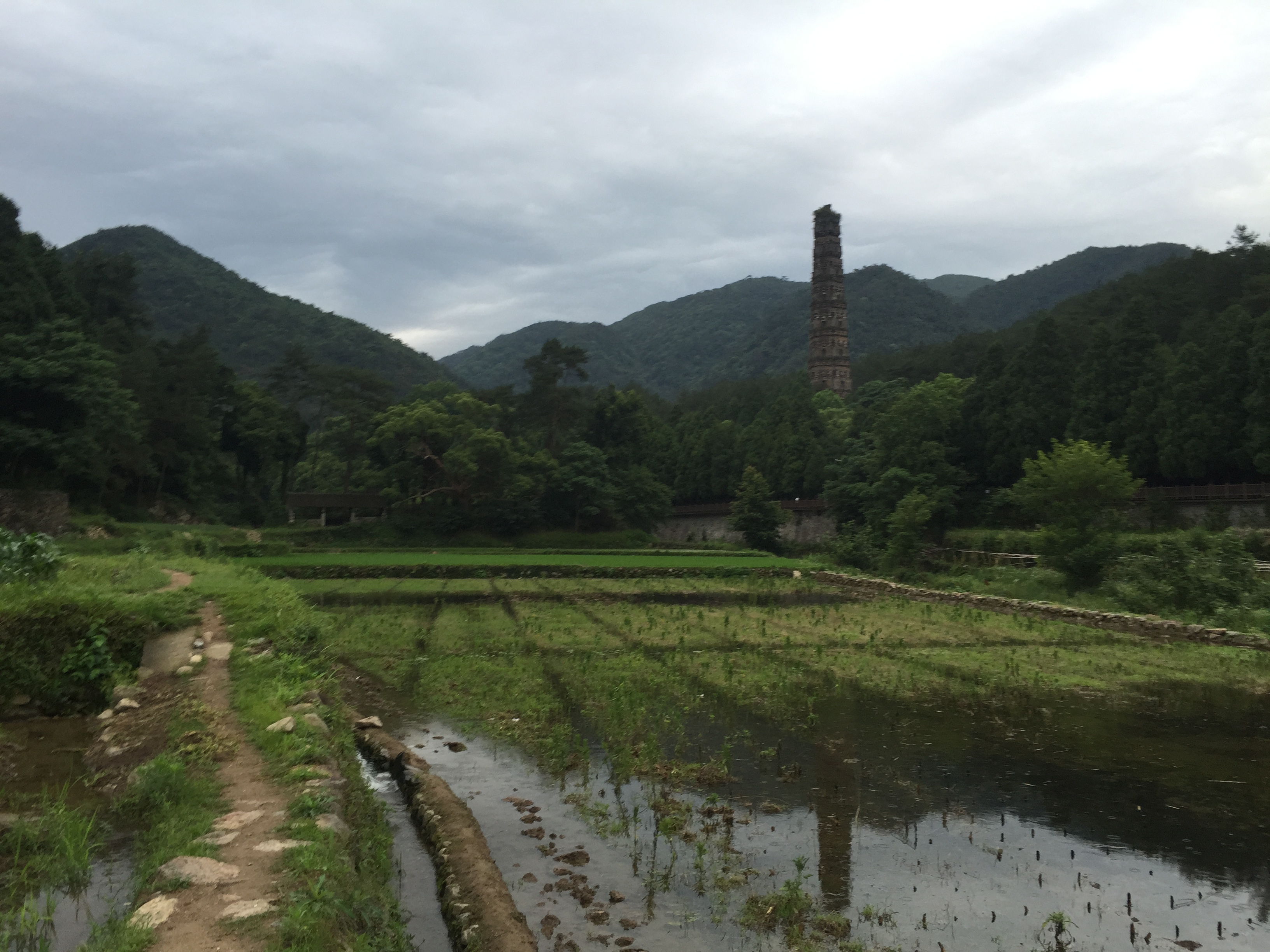 A view of Mount Tiantai and the Guoqing Temple Ancient Tower, constructed during the Sui Dynasty.